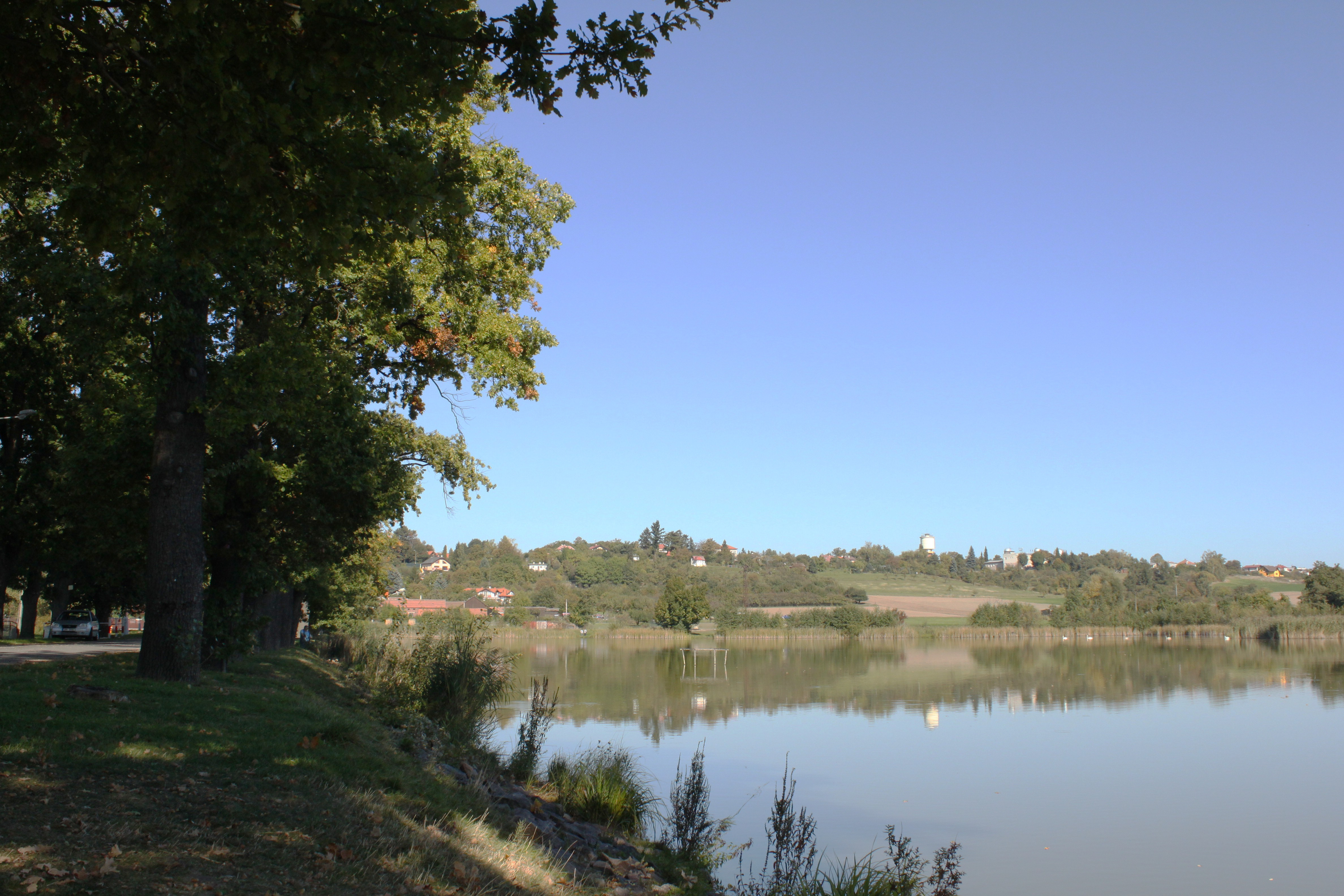 Natural monument "Roudnička a Datlík" in Hradec Králové District, Czech Republic. Pond "Roudnička" and surrounding wetlands